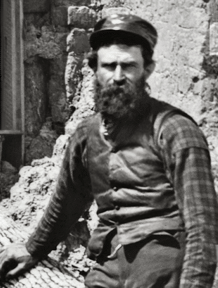 Thomas C. Roche, cropped from original, wet-plate stereo negative